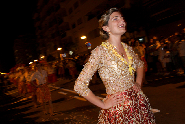 Bairro da Matriz quarter tricana during a parade